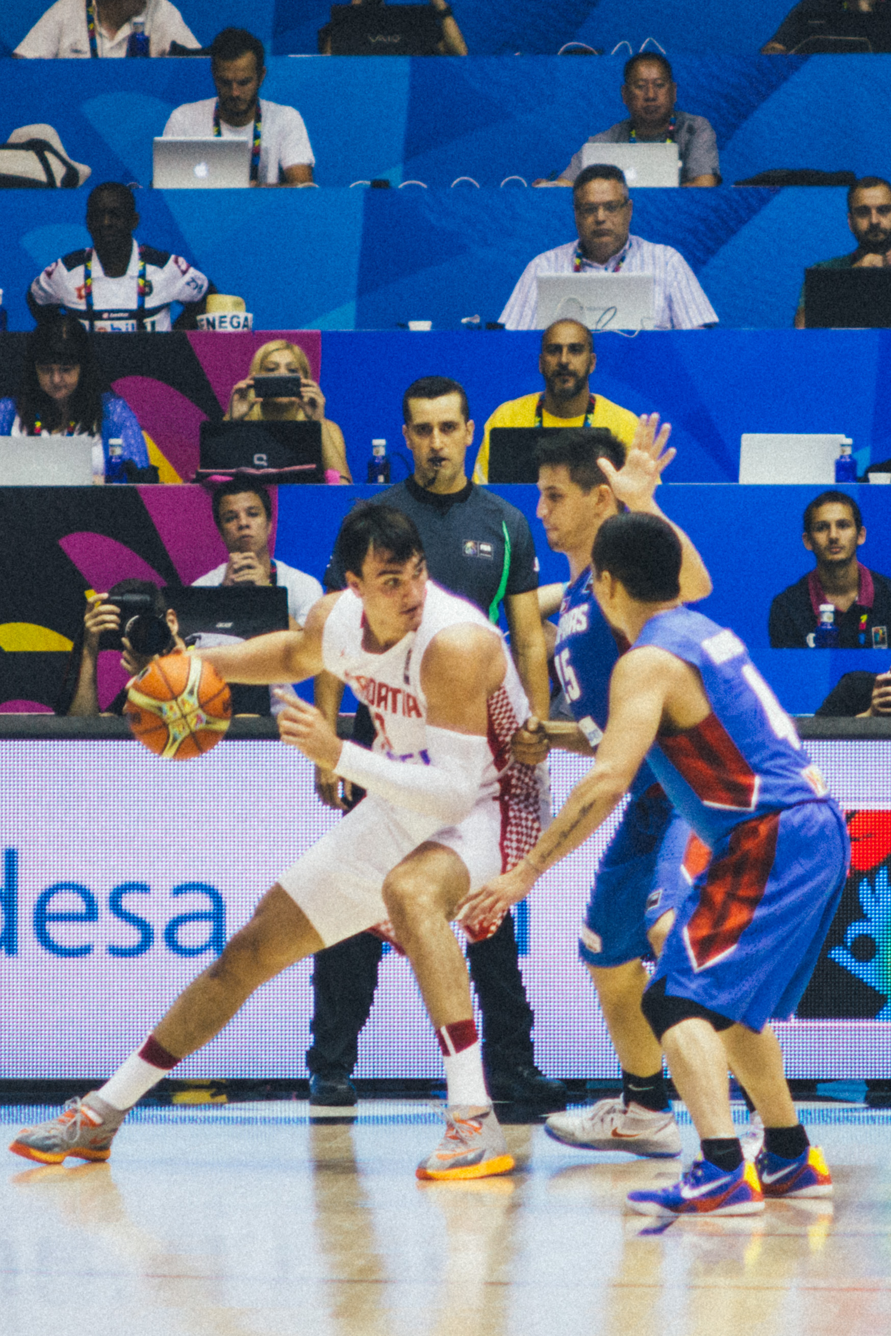 Canon 600D + Super Paragon 135mm 2.8 | Would you like to follow me on Instagram, Twitter, 500px, Tumblr (Project 365) or YouTube?